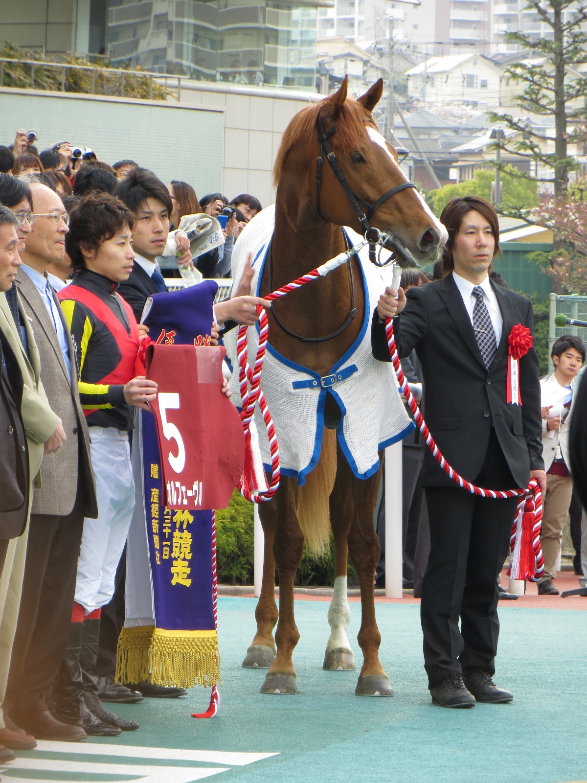 Orfevre, Japanese Triple Crown Racehorse.